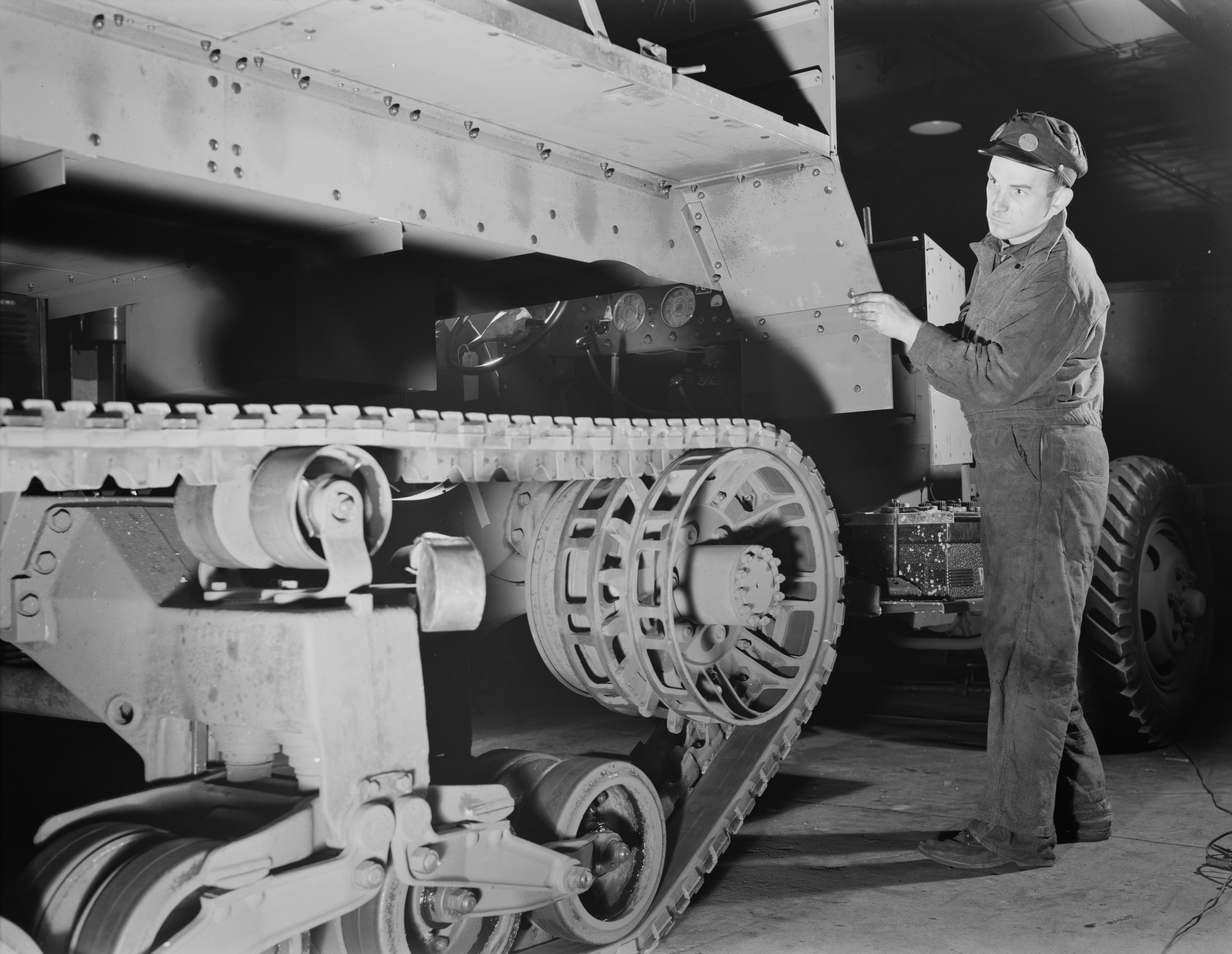 A partly-finished [half-track] scout car body is lowered on a chassis in an Eastern war plant which formerly produced locks and safes. Diebold Safe and Lock Company, Canton, Ohio.